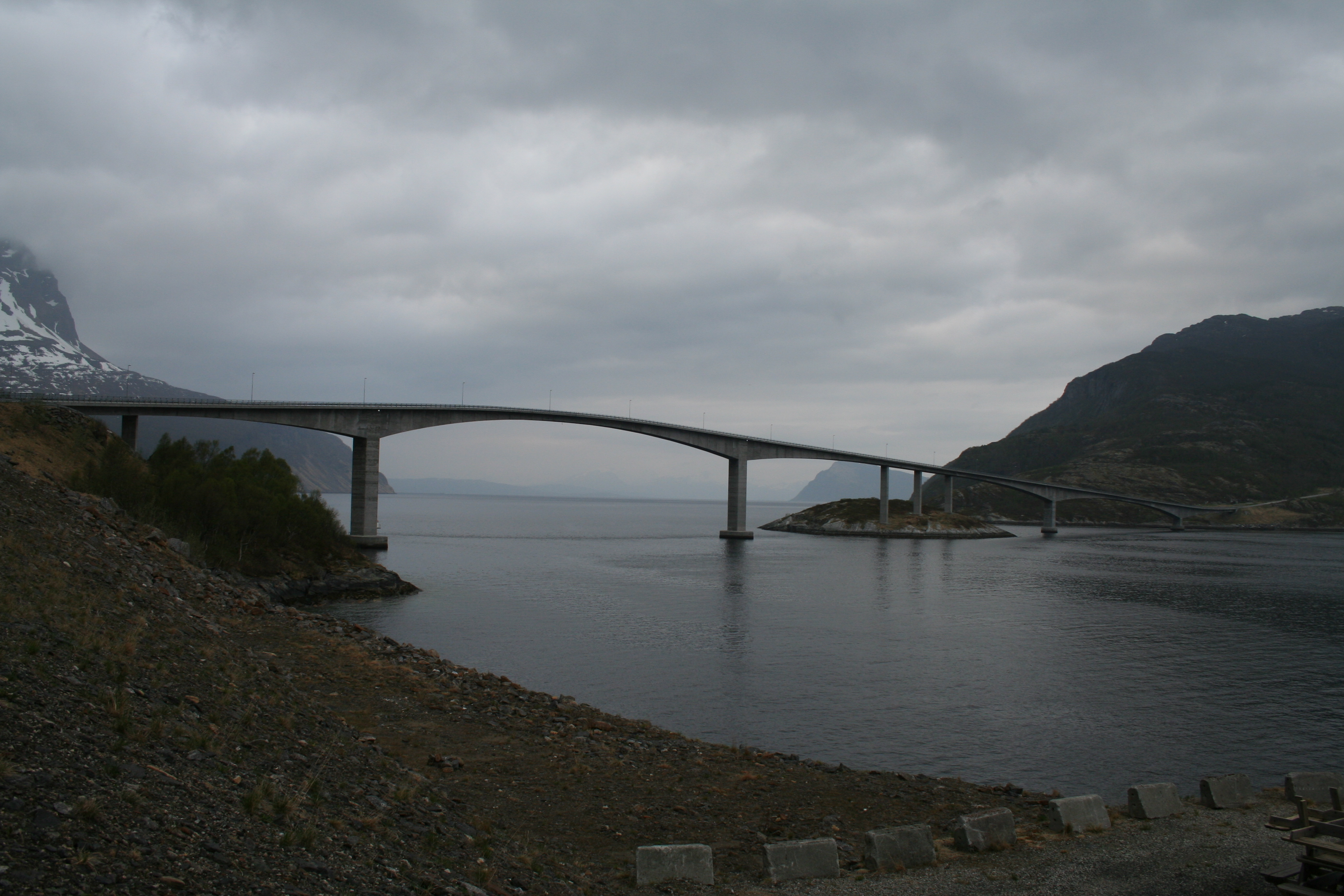 The 840 m long Mjøsund Bridge between the island Andørja and the main land, seen from the southwest. The bridge crosses the municipality border between Ibestad and Salangen.